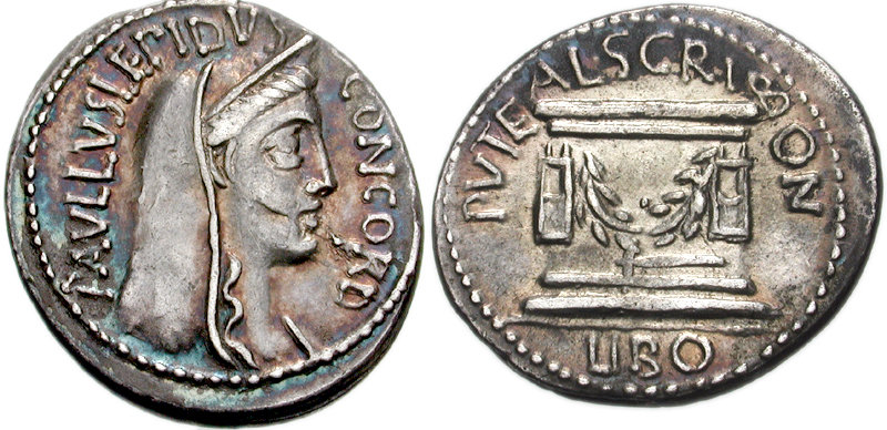 Roman Republic: Lucius Aemilius Lepidus Paullus and L. Scribonius Libo. 62 BC. AR Denarius (19mm, 3.85 g). Rome mint. CONCORD - PAVLLVS LEPIDVS. Veiled and diademed head of Concordia right PVTE-AL SCRIBON / LIBO Puteal Scribonianum, ornamented with a festoon between two lyres, and below with a hammer.